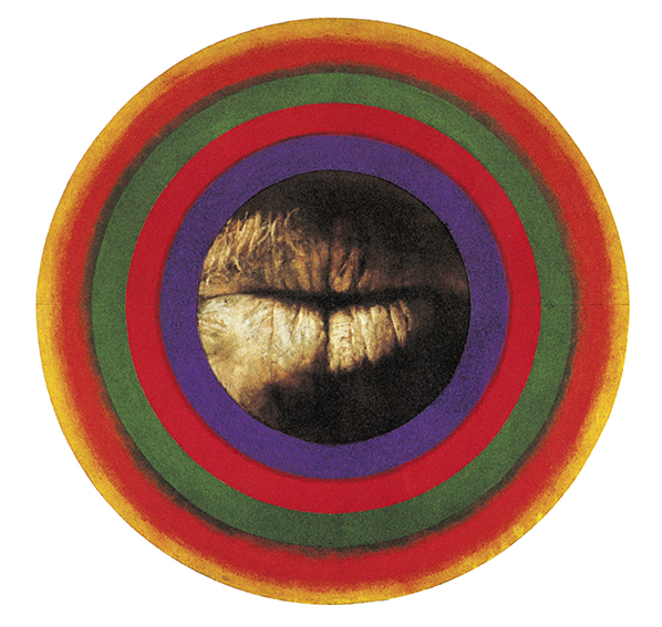 This artwork is to be found in the 80 pages art catalog "László Lakner Chinese Postcard". It shows those works of the artist, which were inspired by Asian culture.